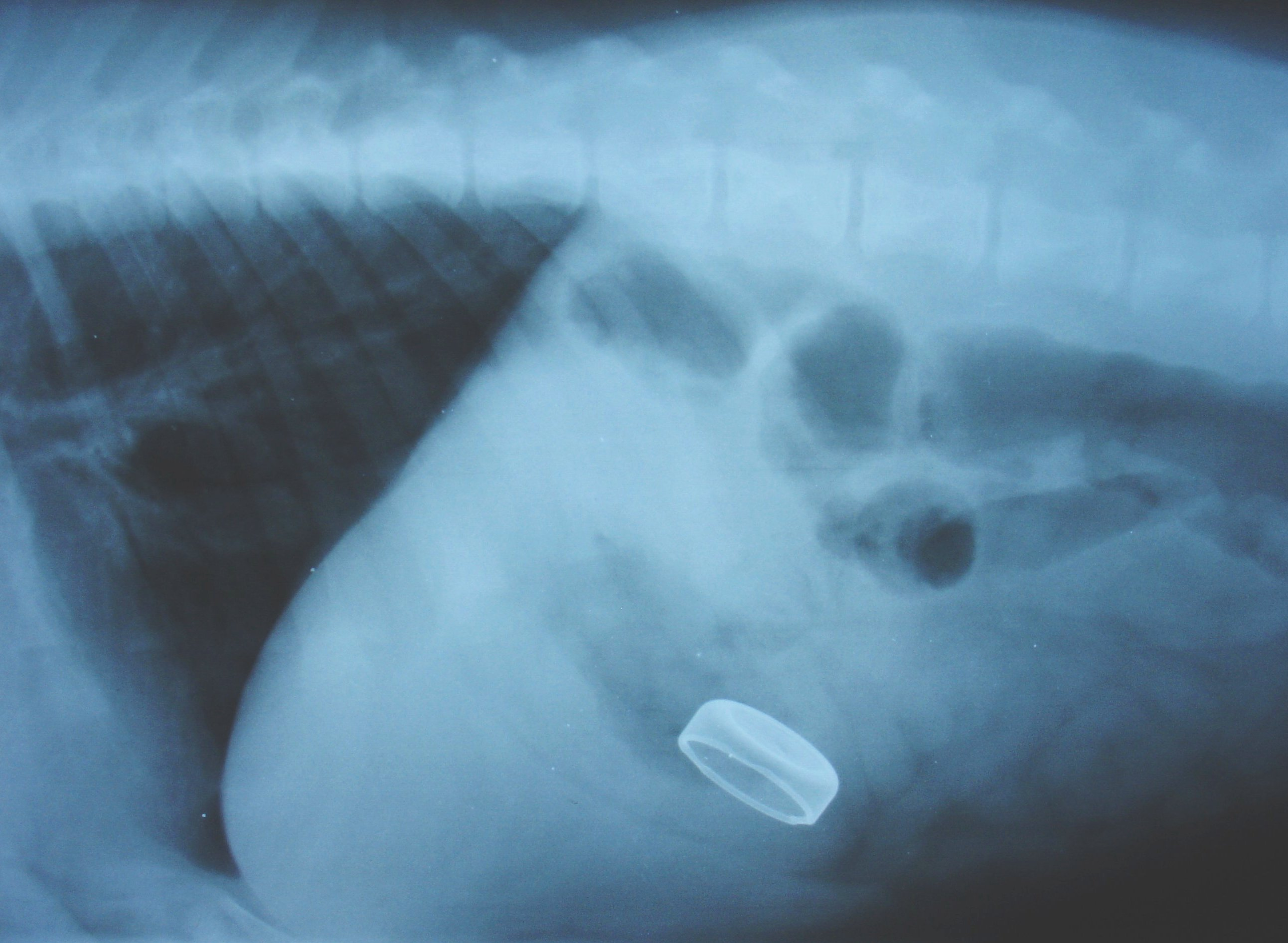 Radiograph of a dog who has swallowed the top from a ketchup bottle. The bottle top is lodged in the stomach.